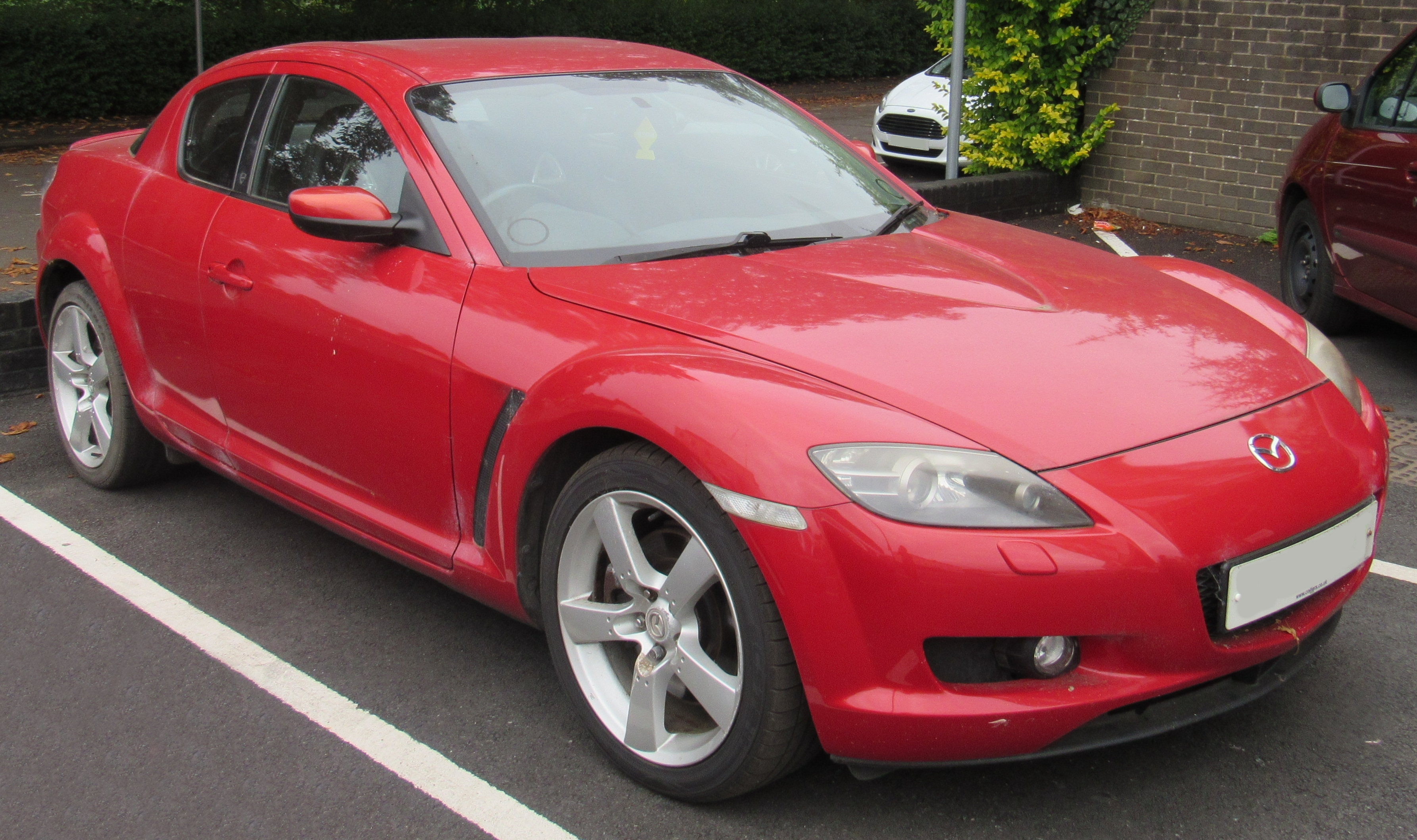 2006 Mazda RX-8 2.6 Taken in Leamington Spa